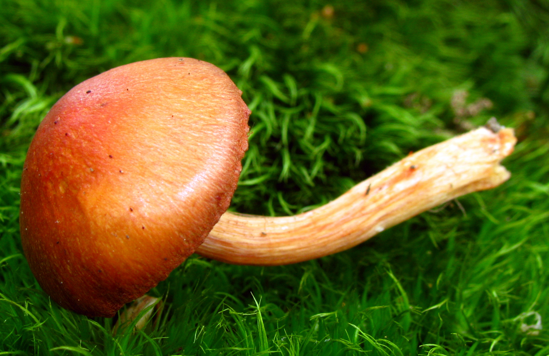 Cortinarius marylandensis Location: Rest Area, north bound, State Highway 33, between Pomeroy and Athens, Ohio, USA For more information about this, see the observation page at Mushroom Observer.